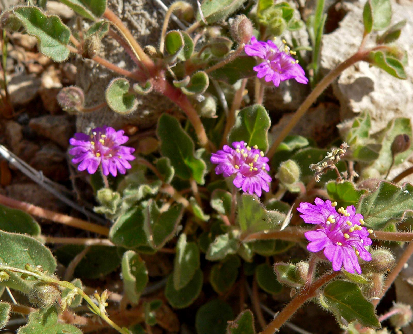 Photo of Allionia incarnata just outside Red Rock Canyon, Nevada